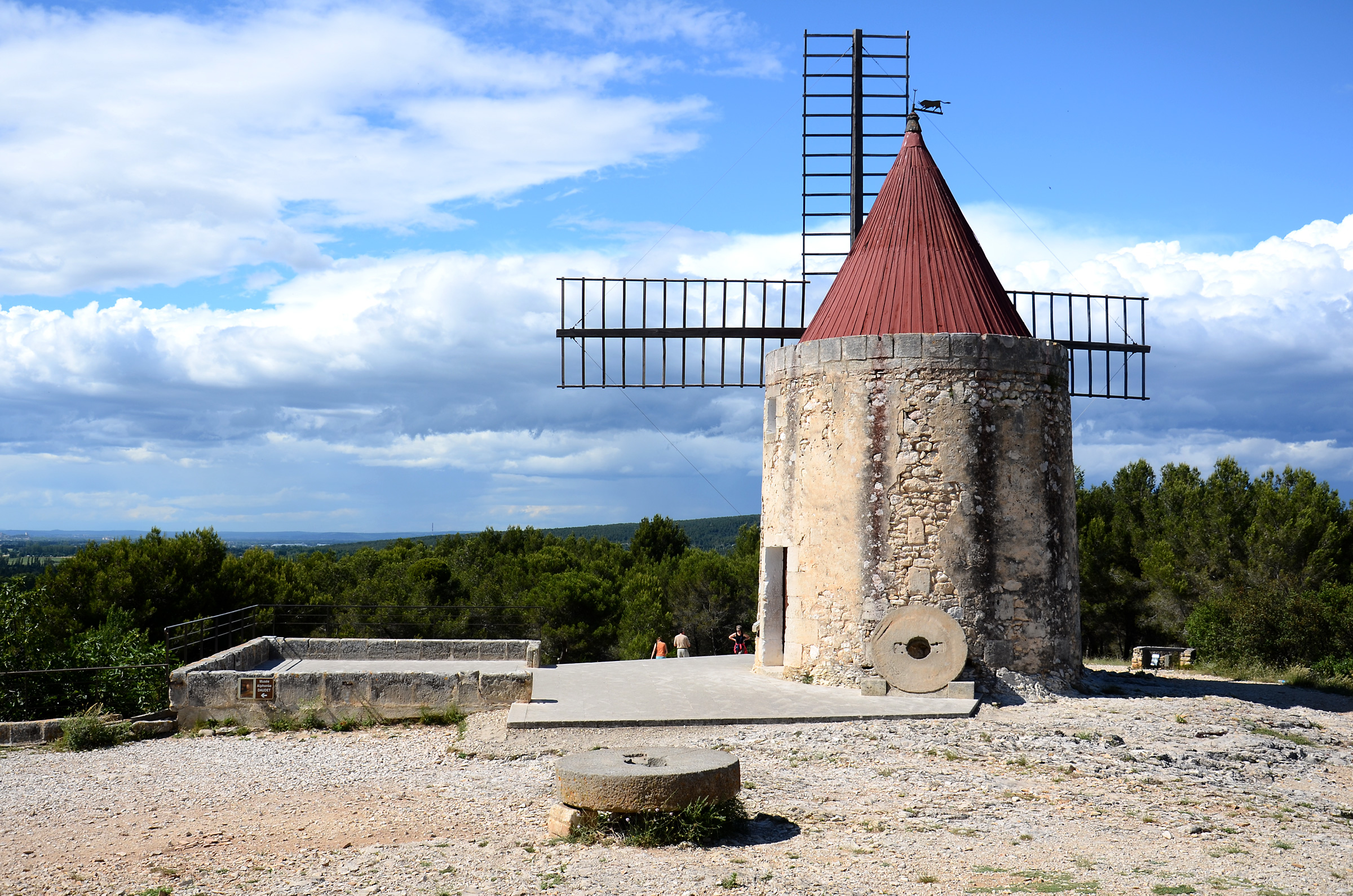 Mill of Alphonse Daudet at Fontvieille